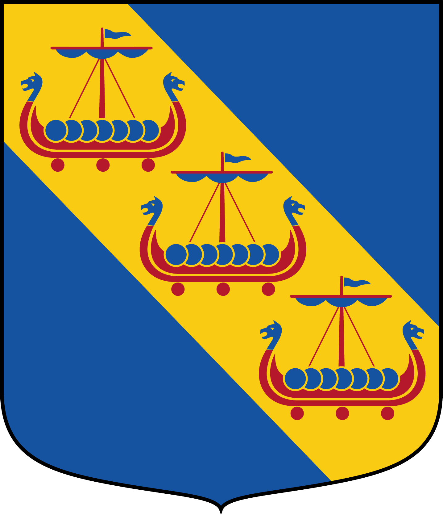 Coat of arms of the municipality of Sollentuna, Sweden. Painted by Vladimir A. Sagerlund when he was the heraldic artist at the National Archives of Sweden (Riksarkivet). This representation of a coat of arms is potentially different from the one used by the armiger (municipality or organisation) in question. = ⇑“Sable, a lionrampant or” This coat of arms was drawn based on its blazon which – being a written description – is free from copyright. Any illustration conforming with the blazon of the arms is considered to be heraldically correct. Thus several different artistic interpretations of the same coat of arms can exist. The design officially used by the armiger is likely protected by copyright, in which case it cannot be used here.Individual representations of a coat of arms, drawn from a blazon, may have a copyright belonging to the artist, but are not necessarily derivative works. Further information: Commons:Coats of arms and Template:Coa blazon